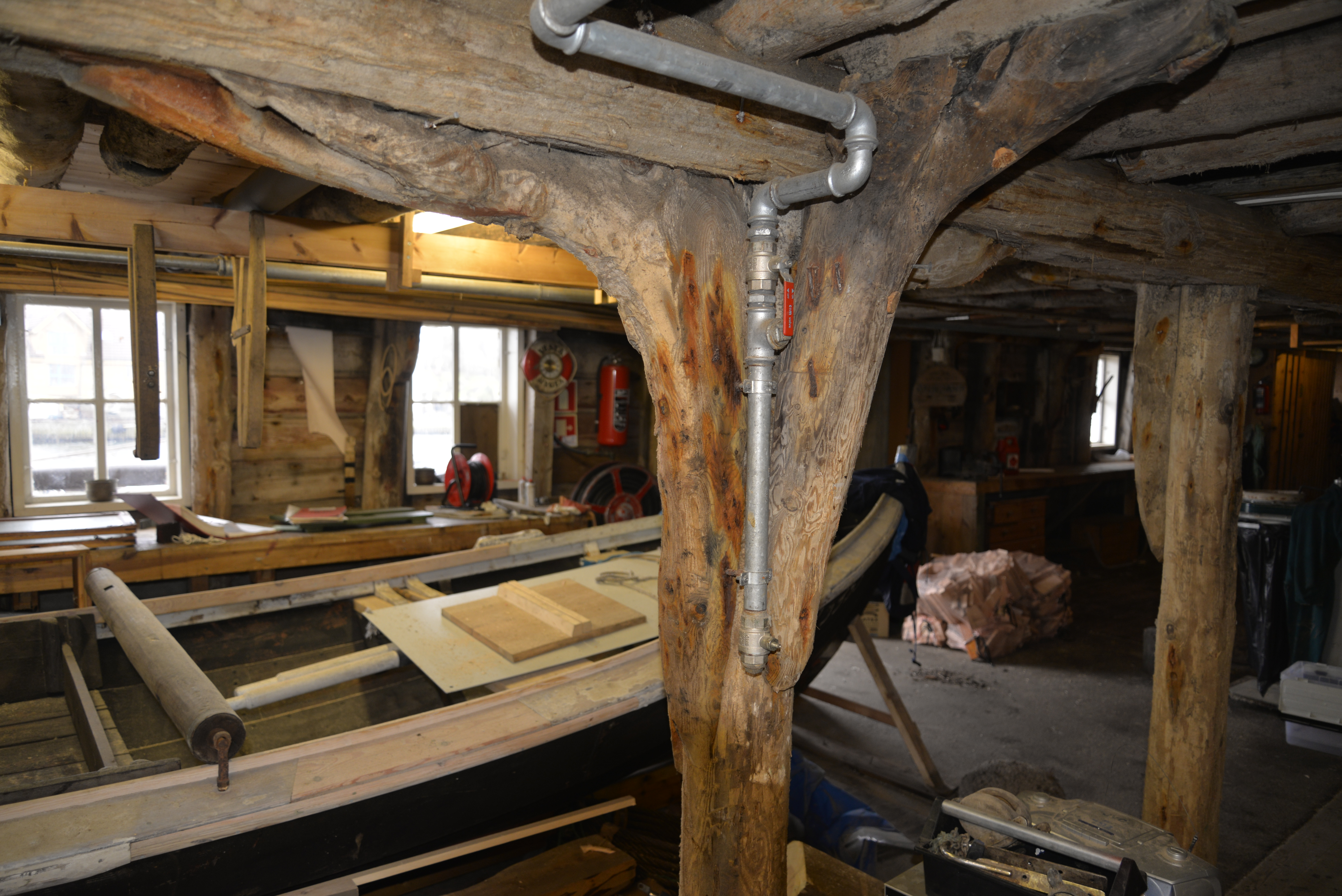 Engøyholmen Coastal Center, Engøy, Norway